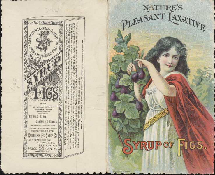 Persistent URL: Subject (TGM): Women; Goddesses; Fruit; Fig trees; Patent medicines; Pharmacists; Drugstores; Graeco-Roman dress; Keywords: Syrup of Figs